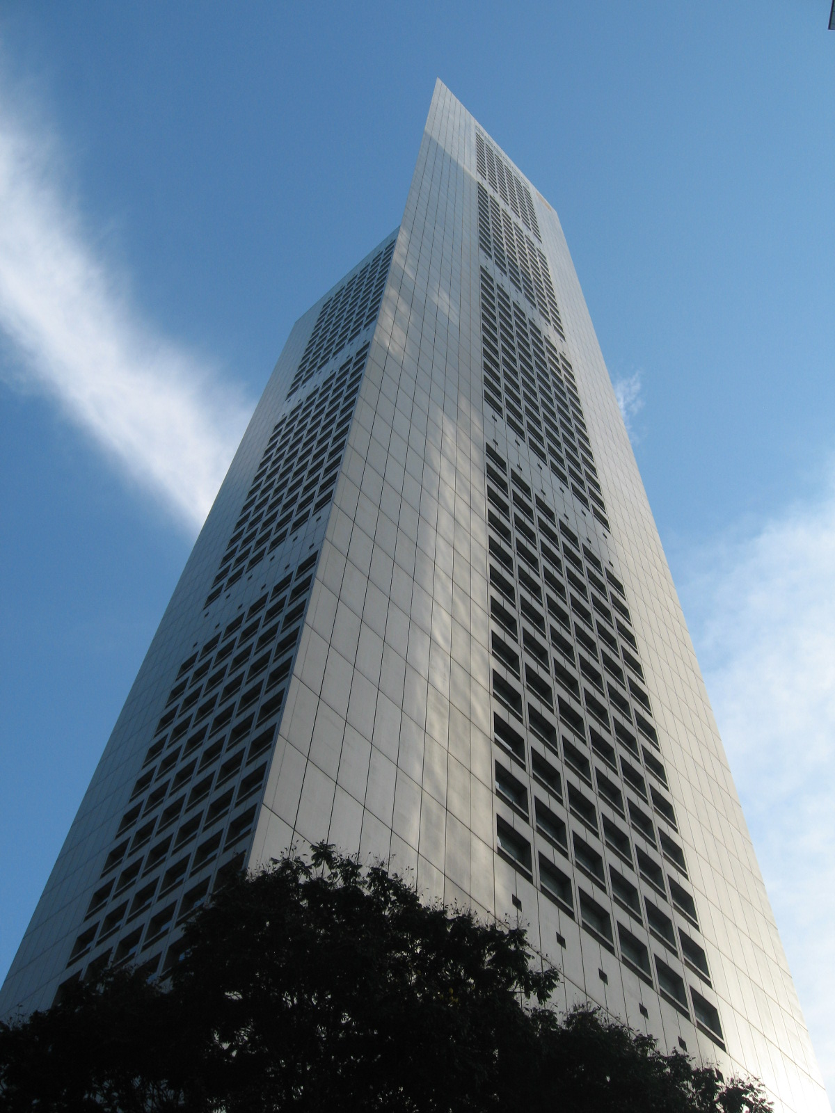 OUB Centre.